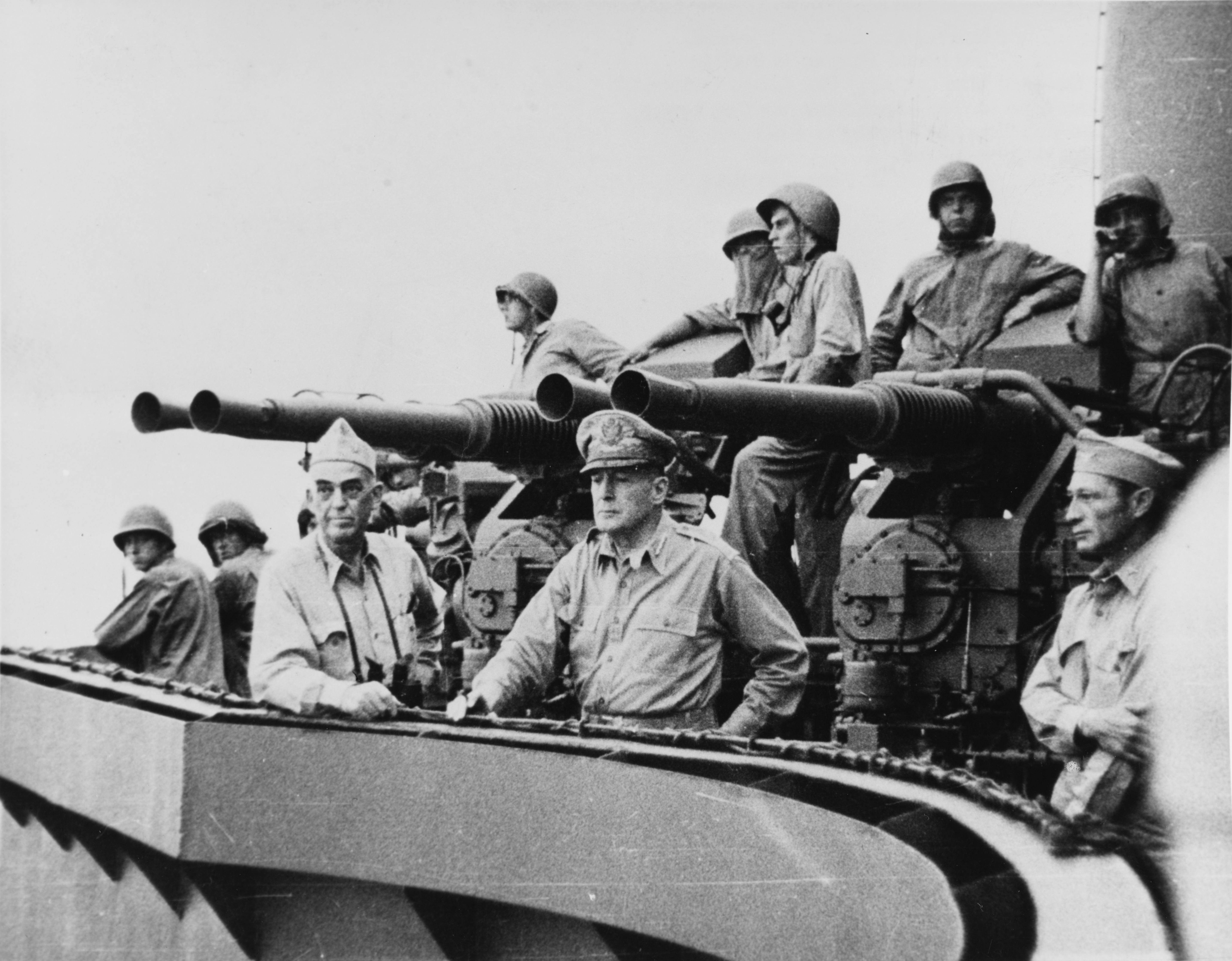 Admiralties Invasion: U.S. Navy Vice Admiral Thomas C. Kinkaid (left center) with General Douglas MacArthur (center) on the flag bridge of the light cruiser USS Phoenix (CL-46) during the pre-invasion bombardment of Los Negros Island, at the east end of Manus Island, 28 February 1944. At right is Colonel Lloyd Labrbas, acting aide to General MacArthur. Note the 40 mm quad gun mount in the background.